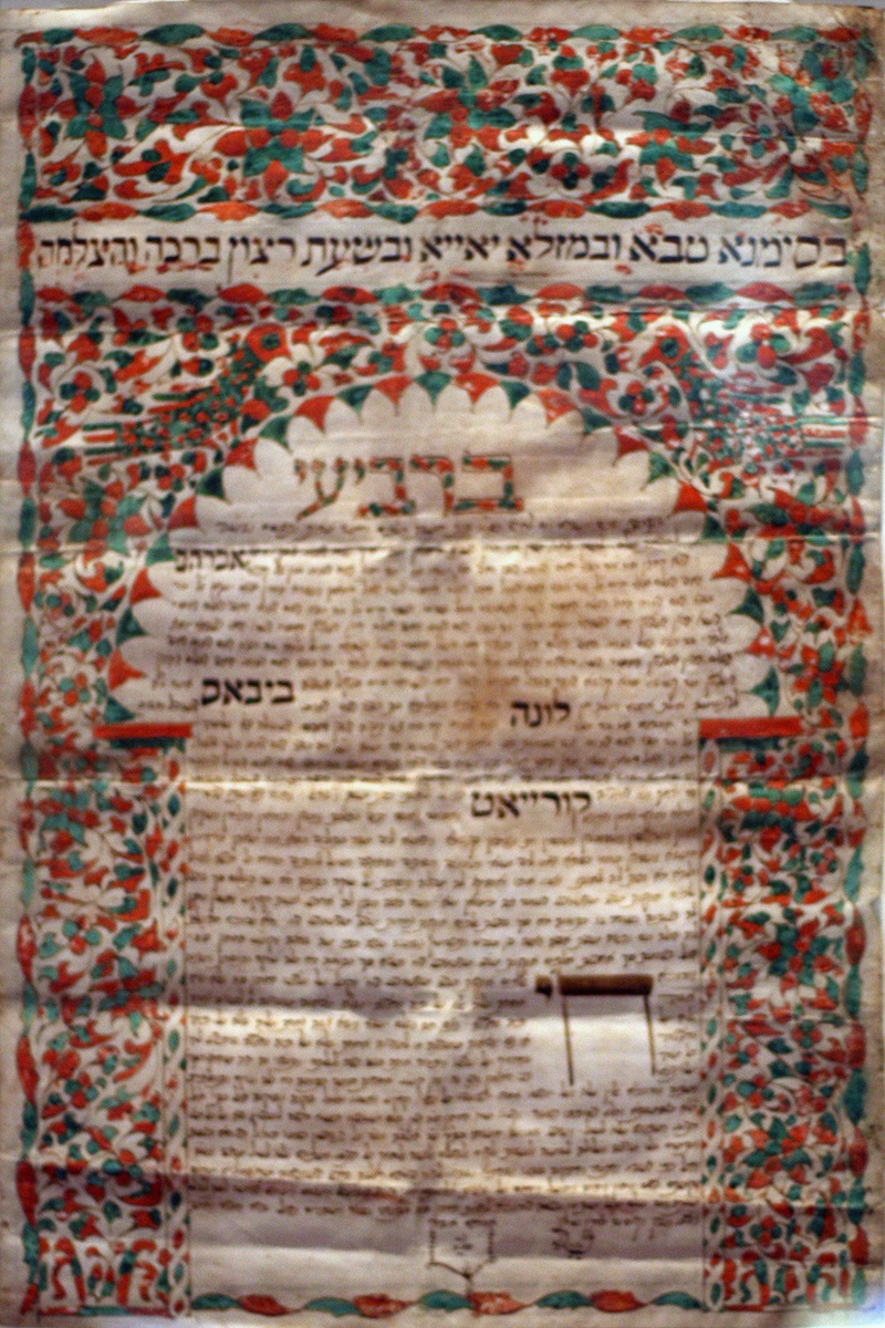 Marriage Contract Tétouan, Morocco, 1837 Ink and gouache on parchment 17 3/16 x 12 in. (43.7 x 30.5 cm) The Jewish Museum, New York Gift of Benjamin and Barbara Zucker Family in honor of Daniel M. Friedenberg, 2008-204 Wikipedia Loves Art at the Jewish Museum (New York City) This photo of item # 2008-204 at the Jewish Museum (New York City) was contributed under the team name "shooting_brooklyn" as part of the Wikipedia Loves Art project in February 2009. Jewish Museum (New York City) The original photograph on Flickr was taken by shooting brooklyn—please add a comment to the original Flickr page whenever a use has been made on Wikipedia or another project. Project galleries on Flickr: this institution, this team